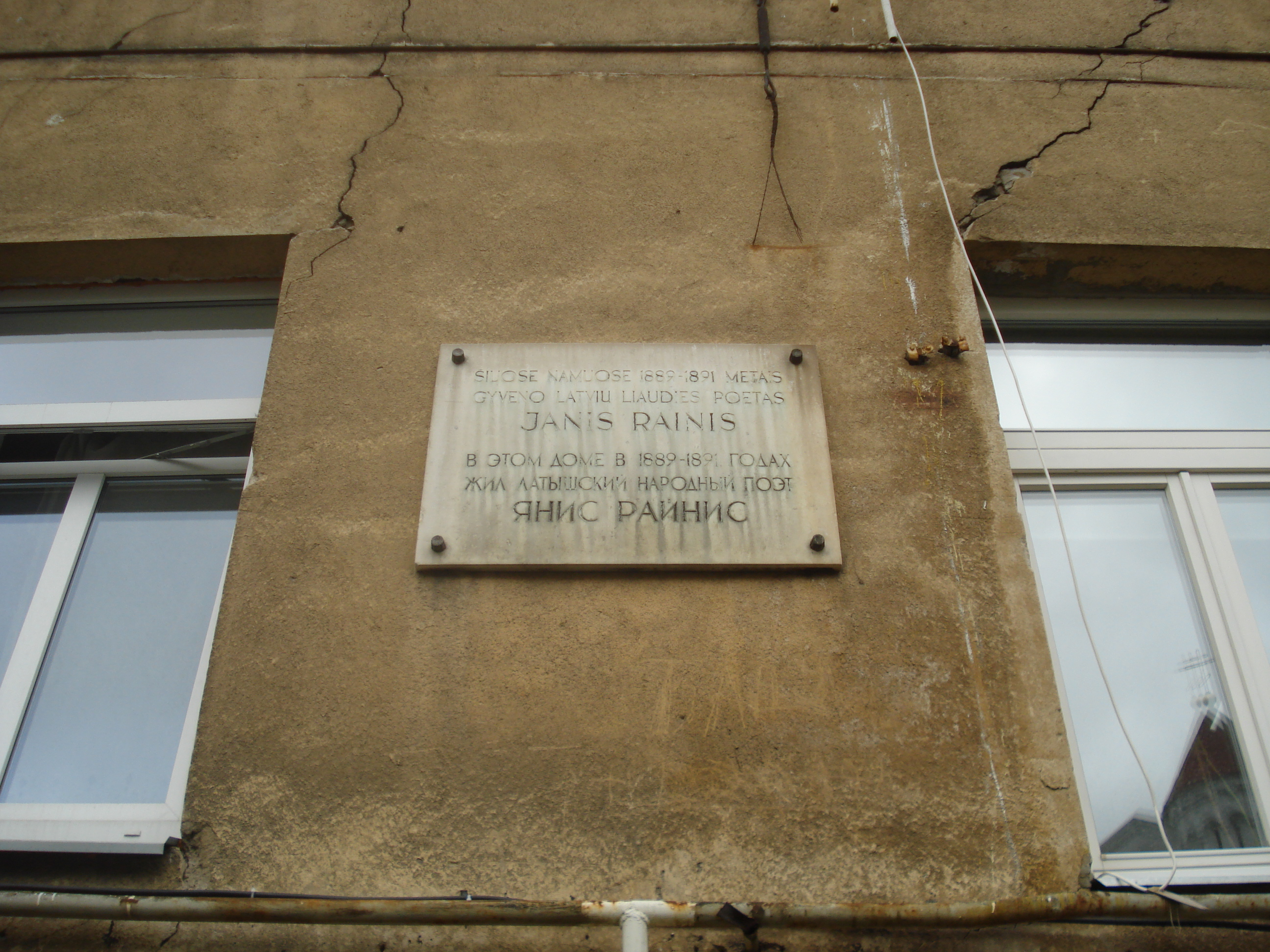 Tablet in memory of Latvian poet Janis Rainis who lived in this house in 1889-1891 (Maironio 15)